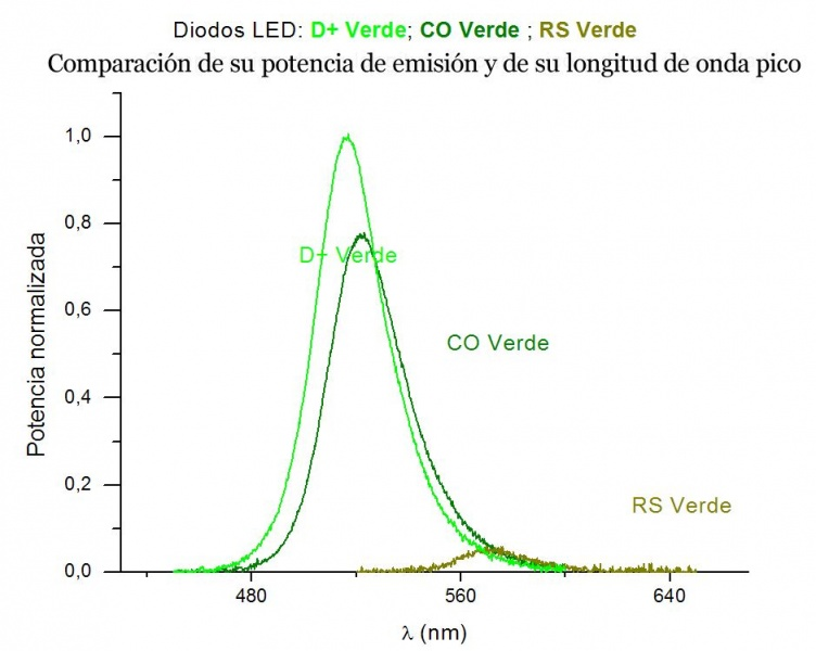 Fig. 12b Gráfica comparativa de la diferente luminosidad de los diodos LED verdes según diferentes fabricantes. Medidas realizadas en el Departamento de Fotónica de la ETSI de Telecomunicaciones (UPM).